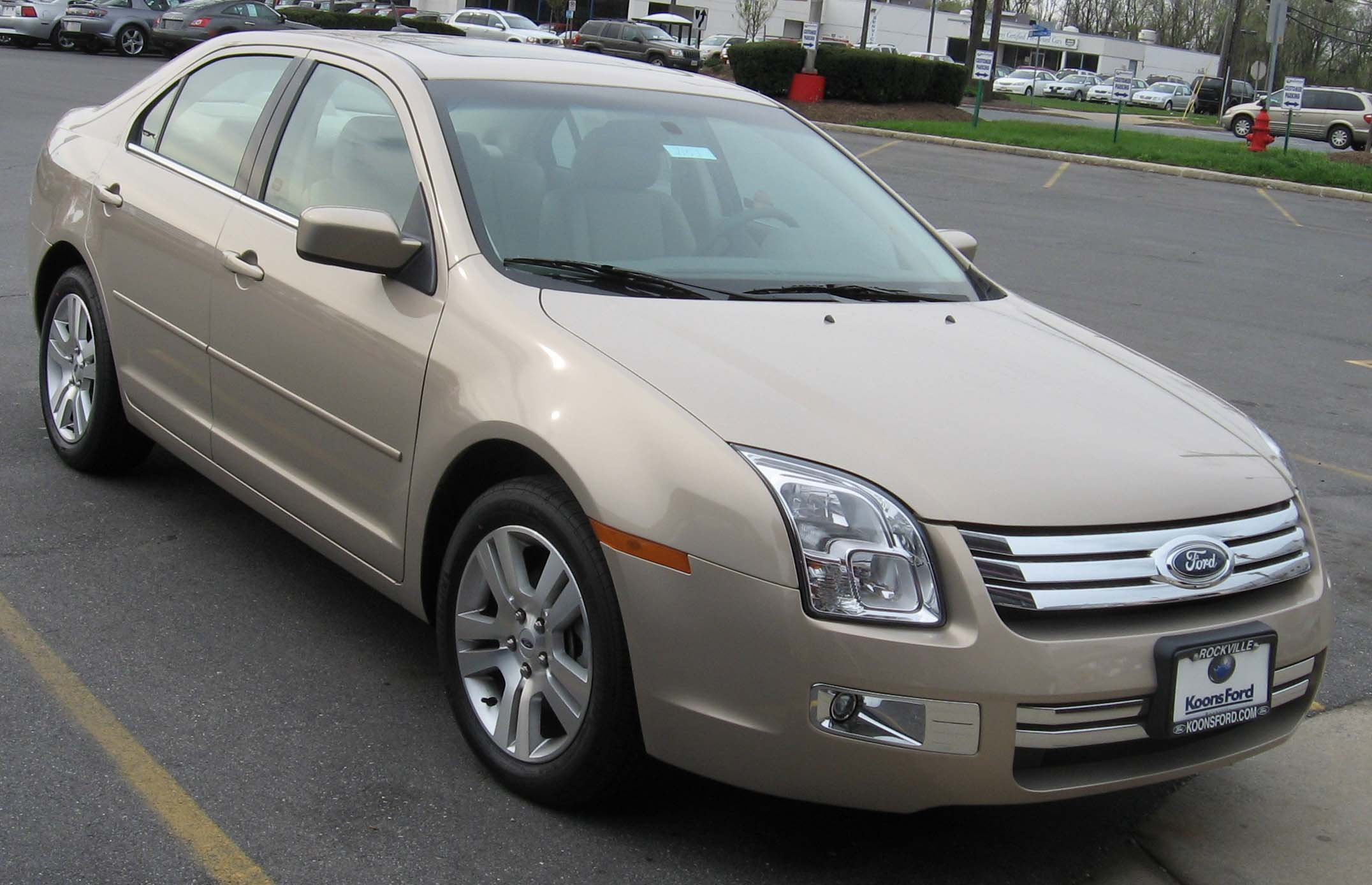 2007 Ford Fusion SEL photographed in USA.